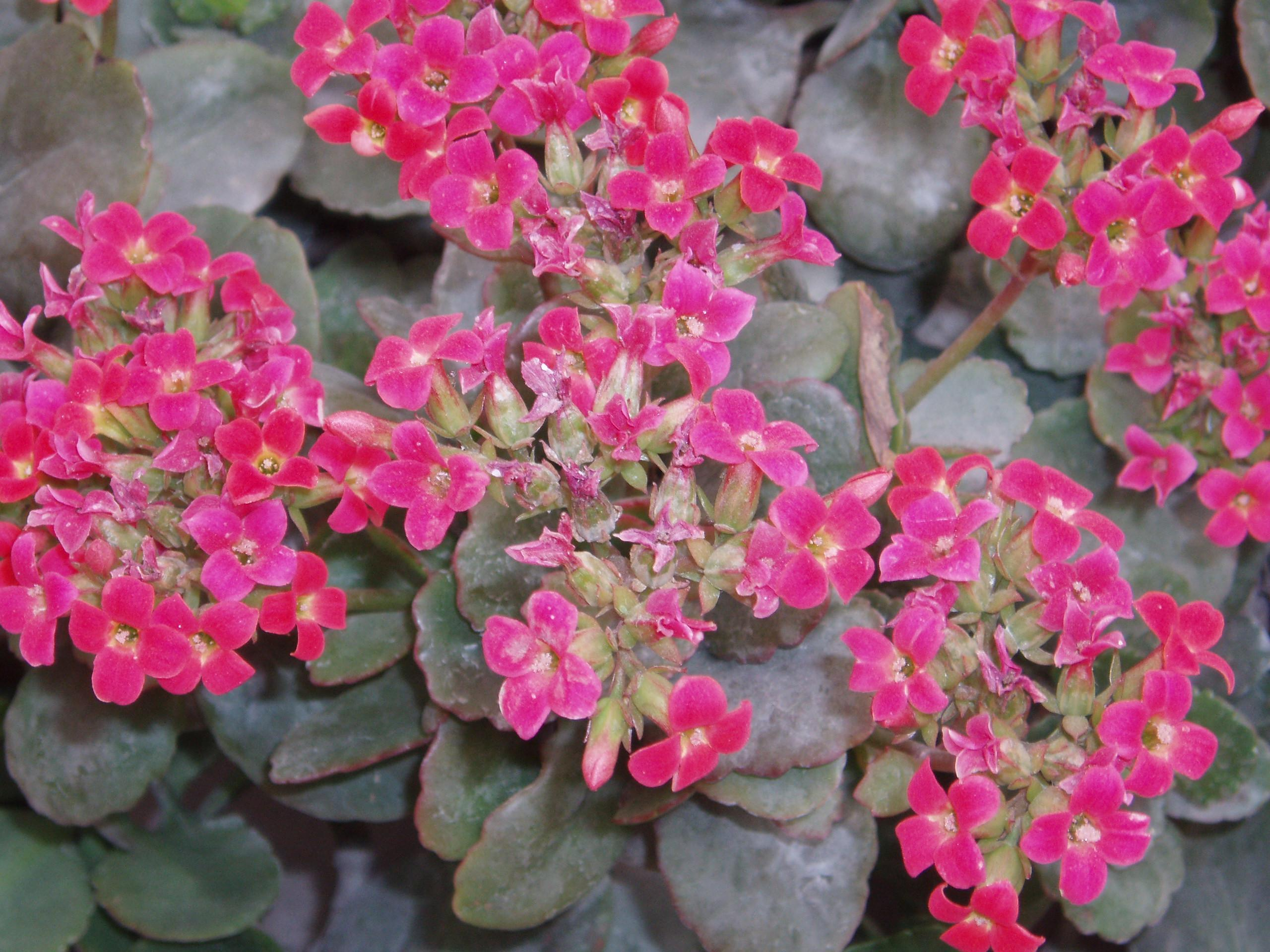 Kalanchoe blossfeldiorum